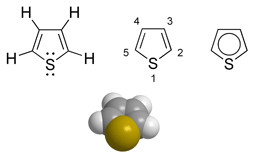 Chemical structure of thiophene selfmade by cacycle Modified by H Padleckas on November 23, 2005 from the previous version. Same license continues to apply. H Padleckas 04:31, 24 November 2005 (UTC) Category:Chemical structures